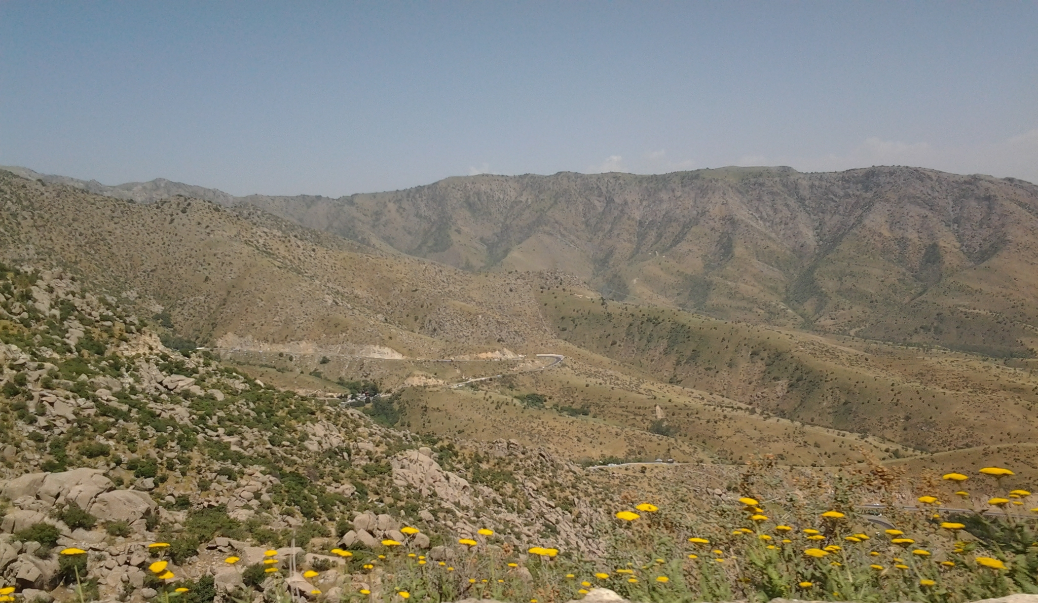 South slope of Zarafshan range near Takhtakaracha pass, Kahkarya region Oʻzbekcha/ўзбекча: Zarafshon tizmasining janubiy yon bag`irlar, Taxtaqoracha yaqinda, Qashqadaryo viloyati